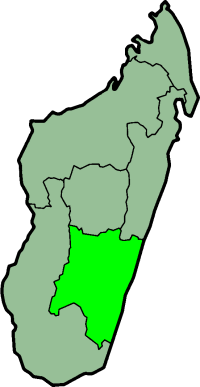 Fianarantsoa, province of Madagascar